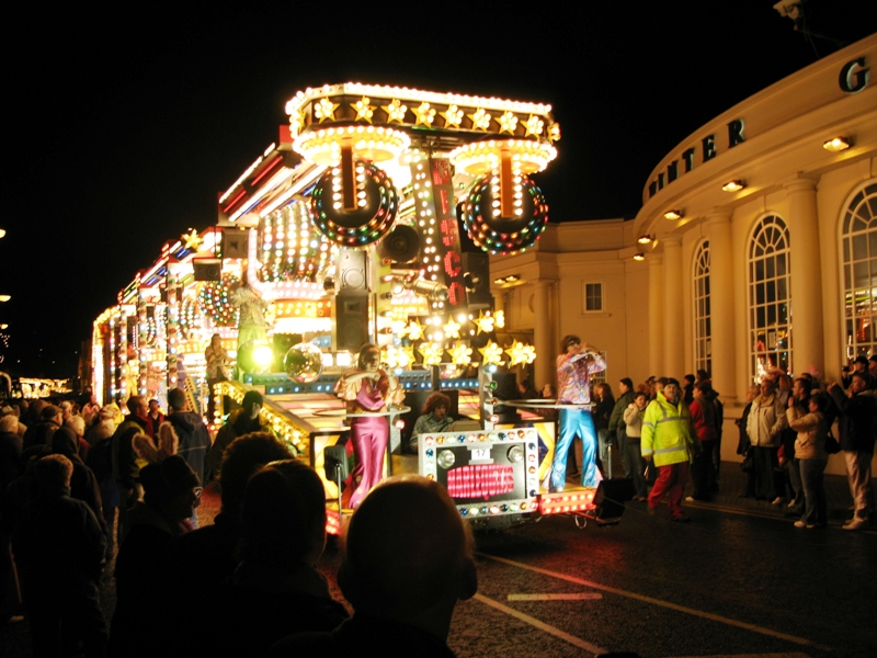 A float with a disco theme passes the Winter Gardens in Weston-super-Mare, North Somerset, England, during the town's winter carnival in 2007.